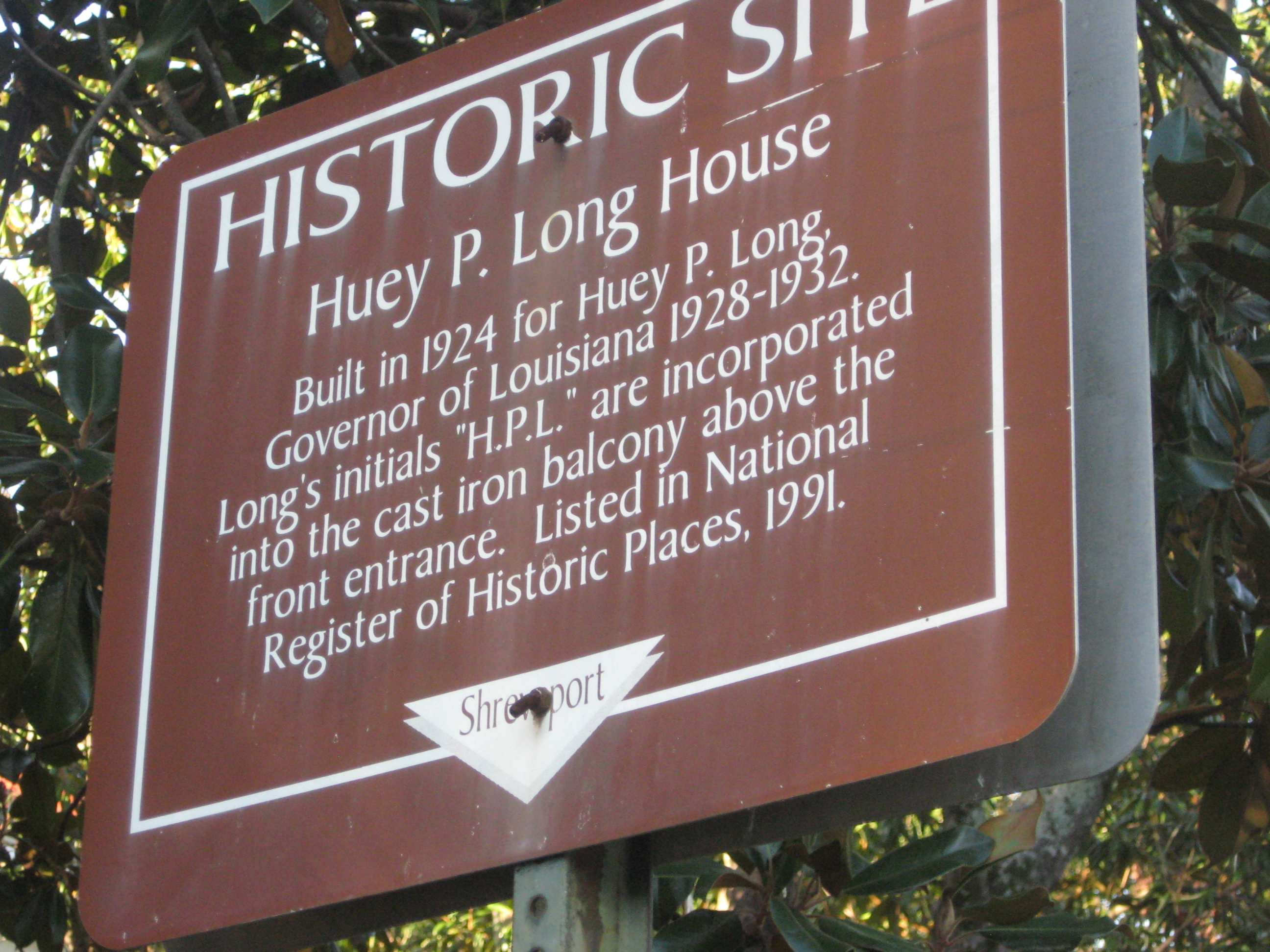 Huey P. Long House, 305 Forest Ave. Shreveport